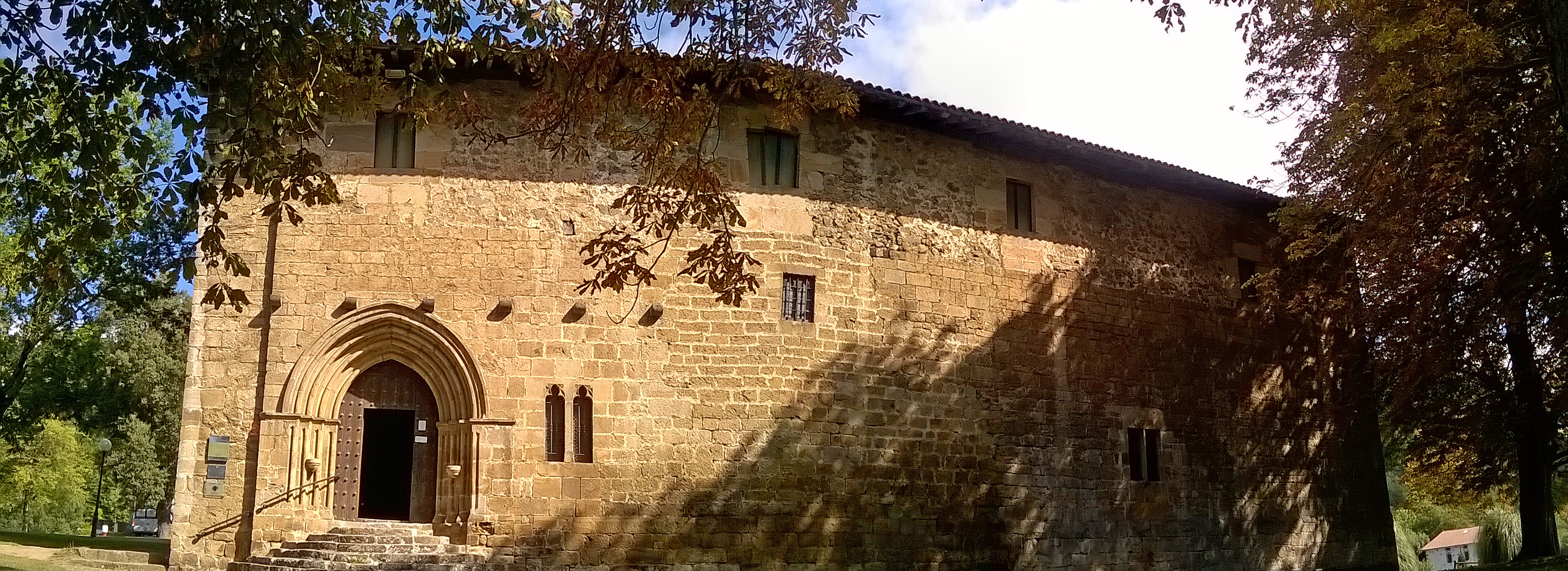 Antio hermitage, Zumarraga, Gipuzkoa, Basque Country.